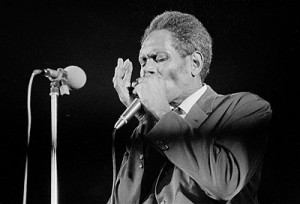 From the archives belonging to David J. Goodwin, Elmira, N.Y. U.S.A.